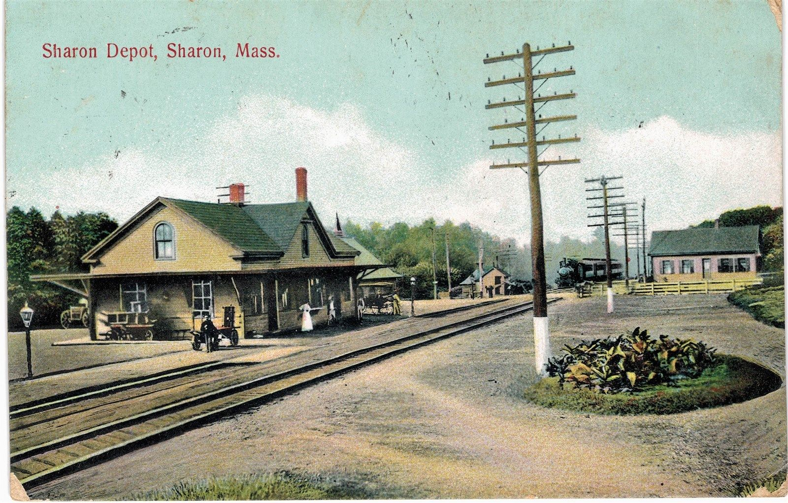 1908 divided back postcard of Sharon station